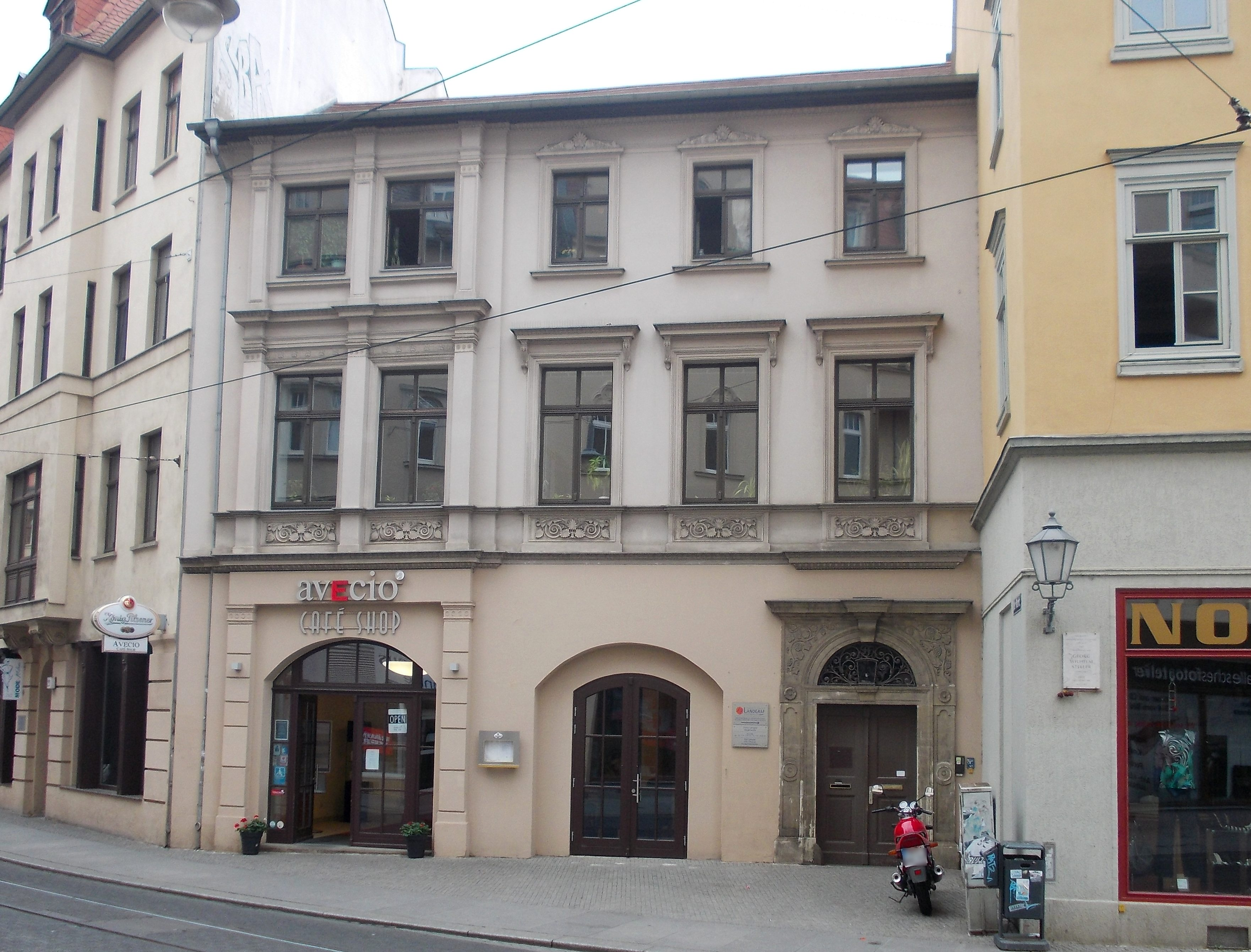 No. 23, Rannische Strasse in Halle (Saale)